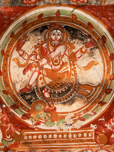 Ceiling fresco depicting Shiva as Nataraja in the Nataraja temple of Chidambaram, Tamil Nadu, India.